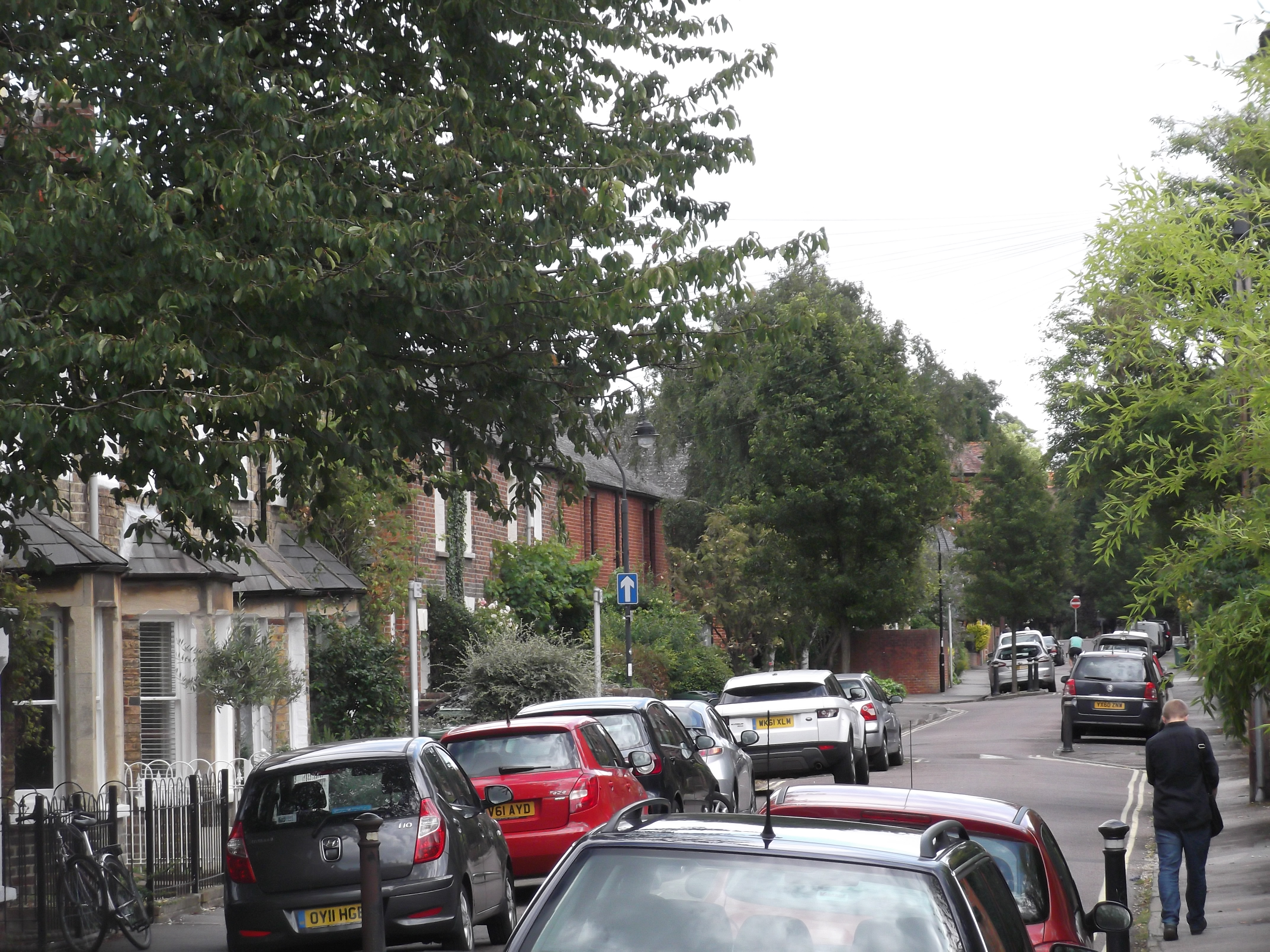 View east from close to the Walton Street end towards Woodstock Road.